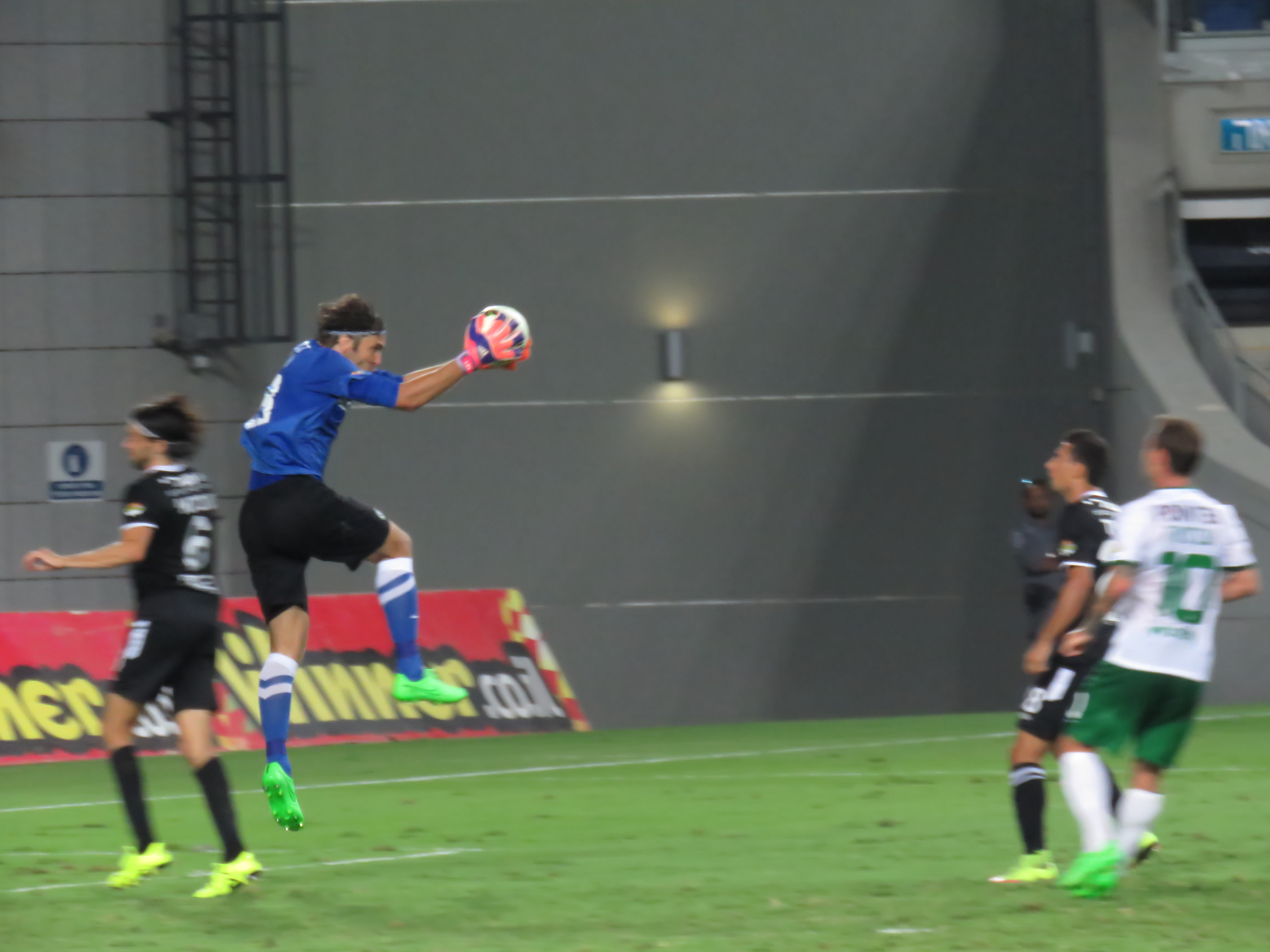 Hapoel Ra'anana vs. Maccabi Haifa F.C., 3 October, 2015